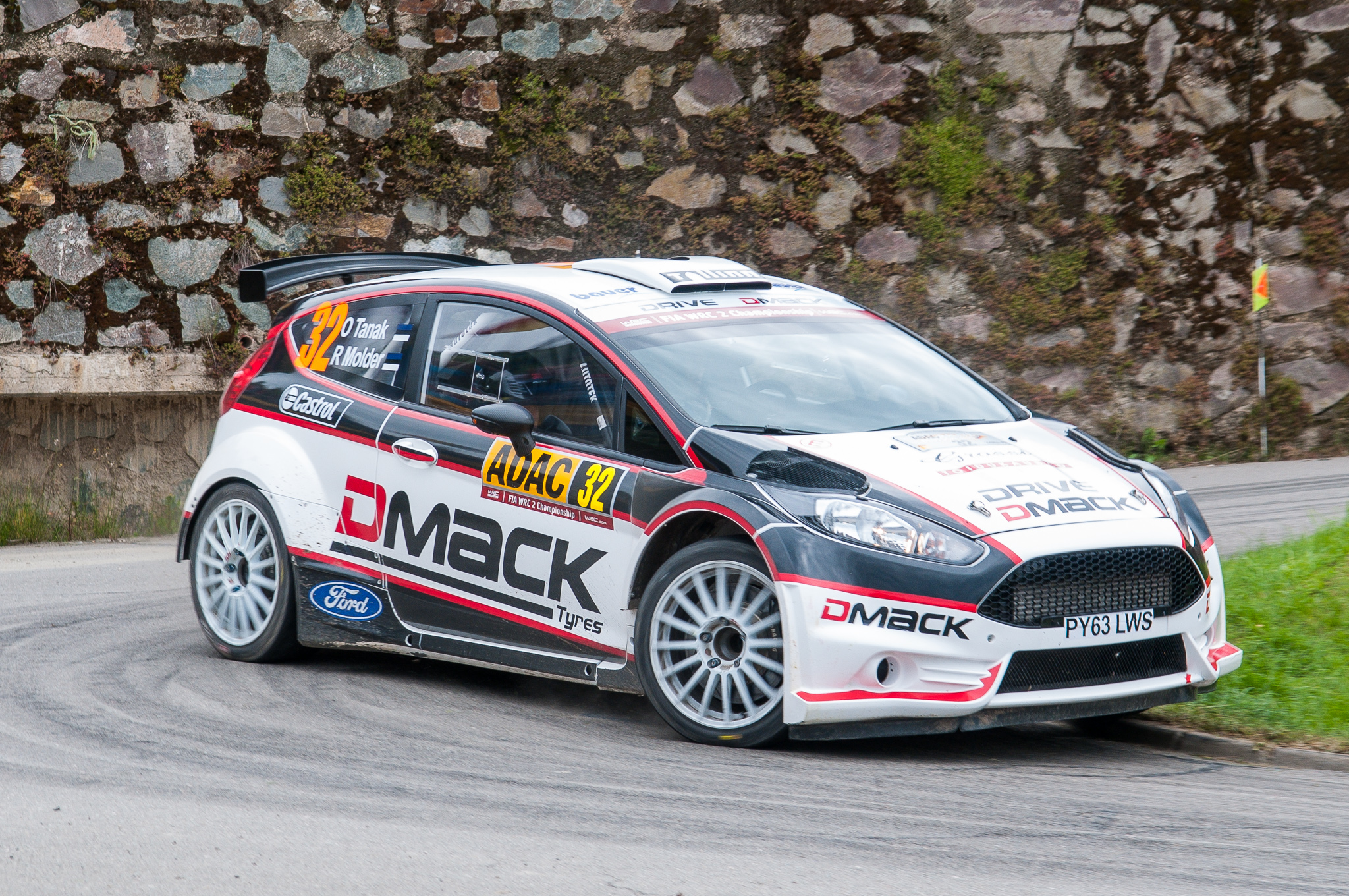 ADAC Rallye Deutschland 2014,Drive Dmack,FIA,FIA World Rally Championship,Ford Fiesta R5,Moselland 1,Motorsport,Ott Tanak,Raigo Molder,Rally,Rallye,SS 3,WP 3,WRC 2